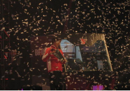 Jaedong after winning the Bacchus Starleague